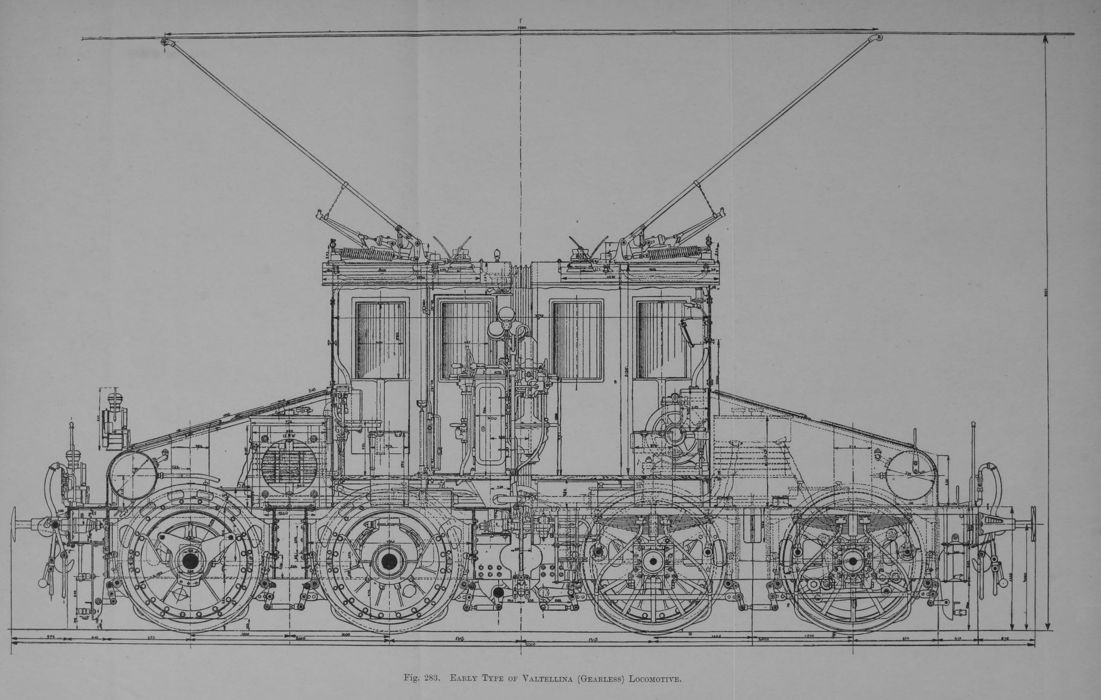 see image title - first number is figure or diagram number. See list of illustrations in source for page number in source - relevent text content is near to image in the source